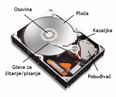 Parts of hard disk; made by Haris Mustagrudić, free to use.